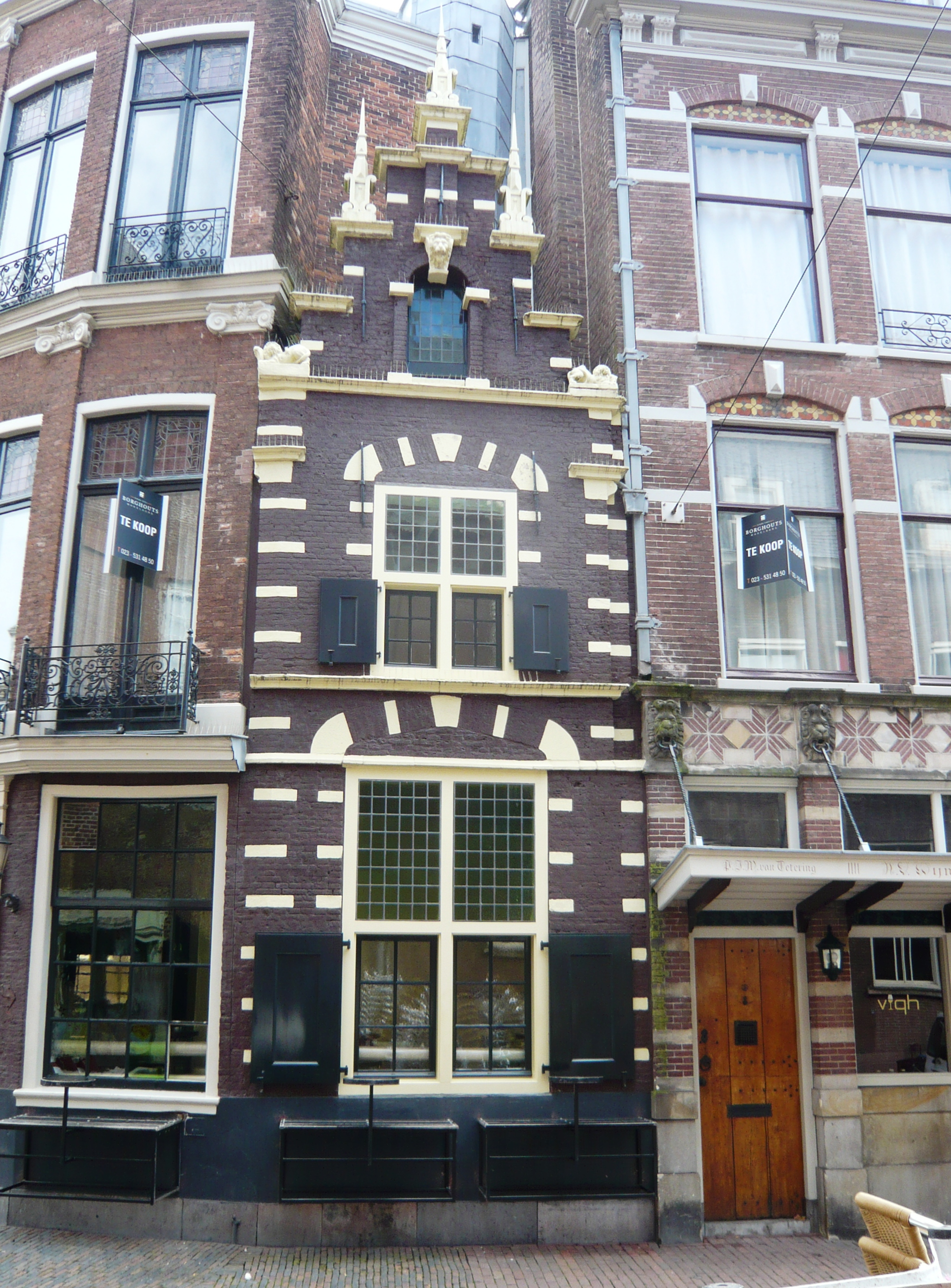 This small facade is said to be the masterpiece of the Haarlem architect Lieven de Key, who built this to prove his mastery of the art of masonry and architectural design. The facade has no door and serves to smooth the corner between two buildings, one facing the Grote markt, and the other facing the Koningstraat. Today it is part of the building known as the "Vergulde Druif". The name is derived from the gilded bunch of grapes hung above the door to the establishment (on the left, not shown).